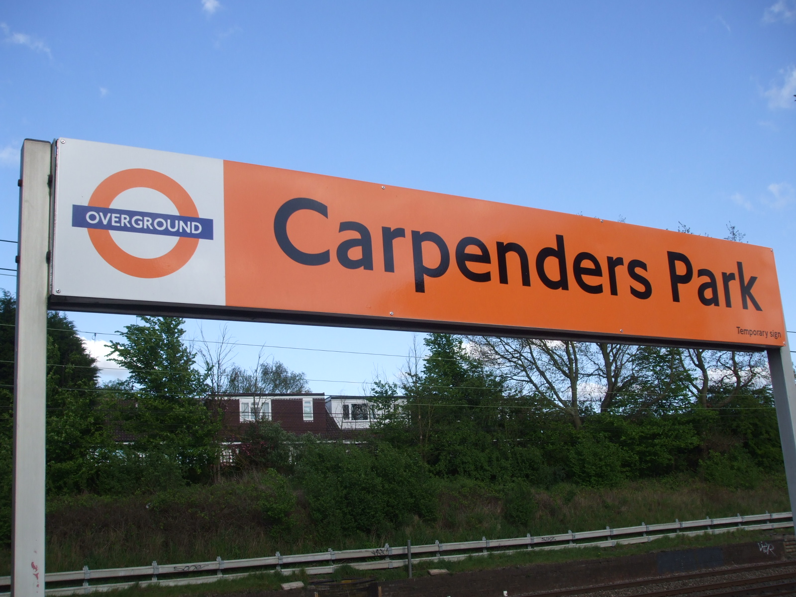 Carpenders Park station platform signage in London Overground colours, apparently temporary (photo dated April 2009)